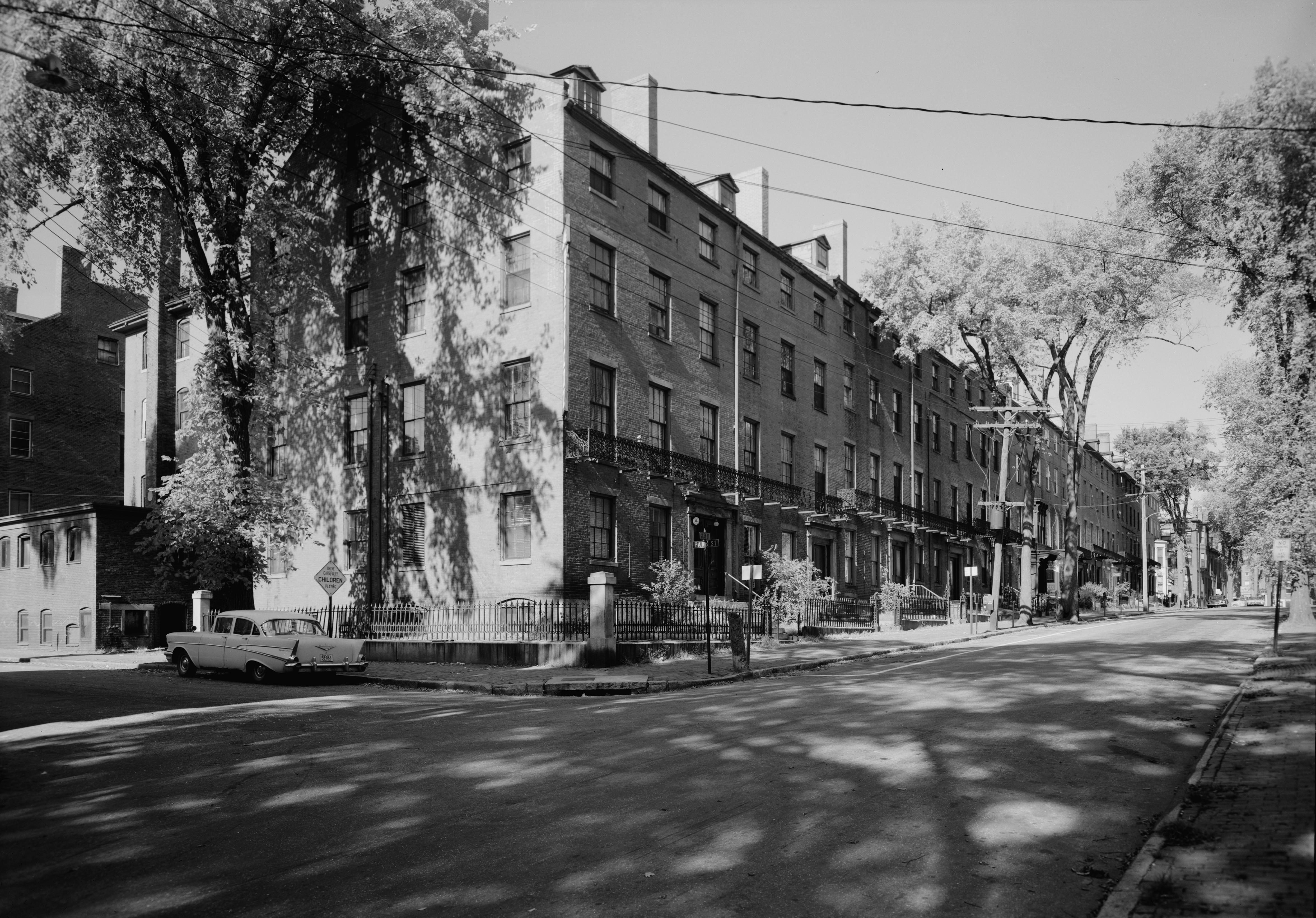 Front of the houses in the Park Street Row, located at 88-114 Park Street in Portland, Maine, United States. Built in 1835, the rowhouses are listed on the National Register of Historic Places.